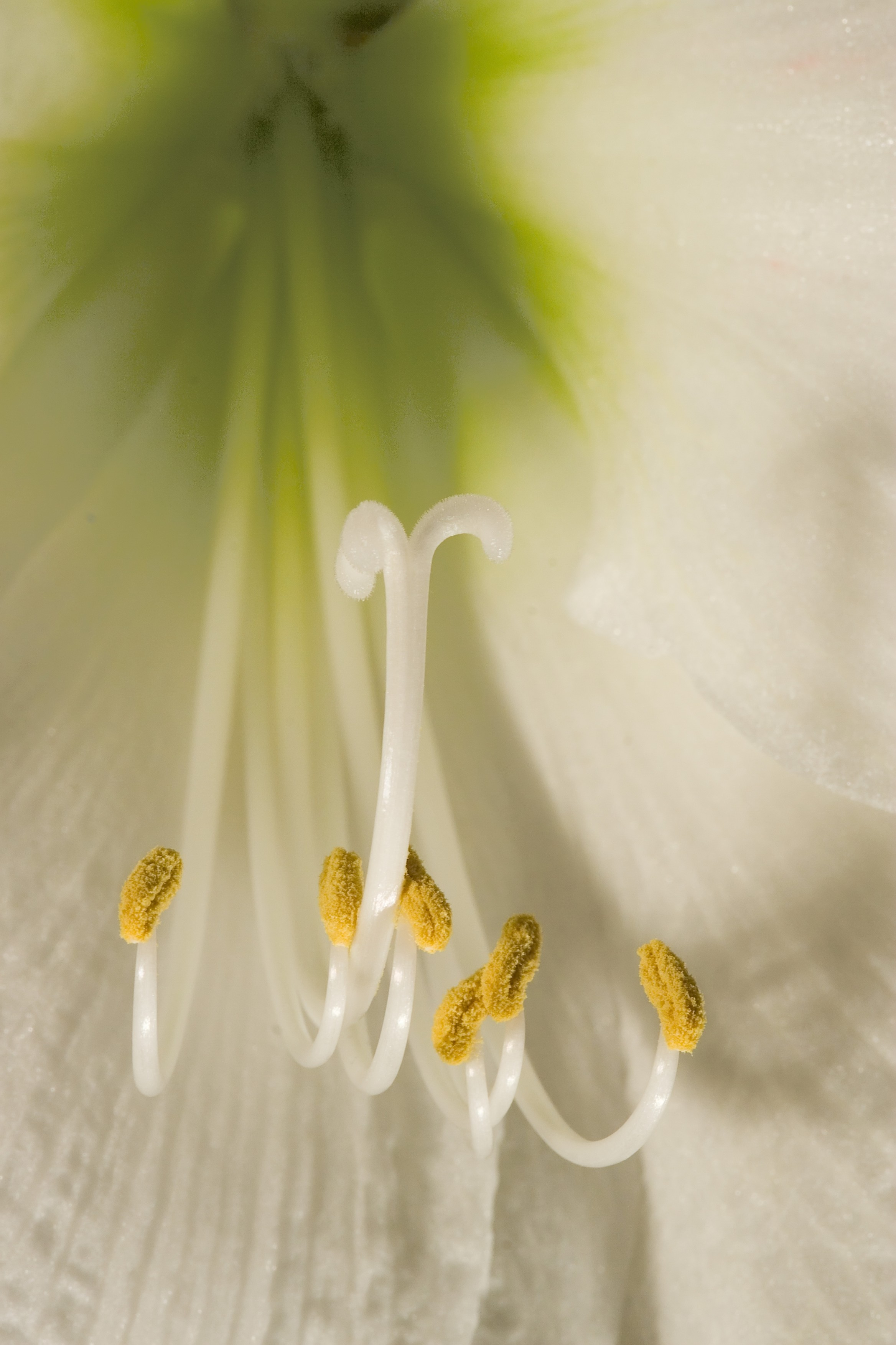 close up of an Hippeastrum flower pistil and stamen